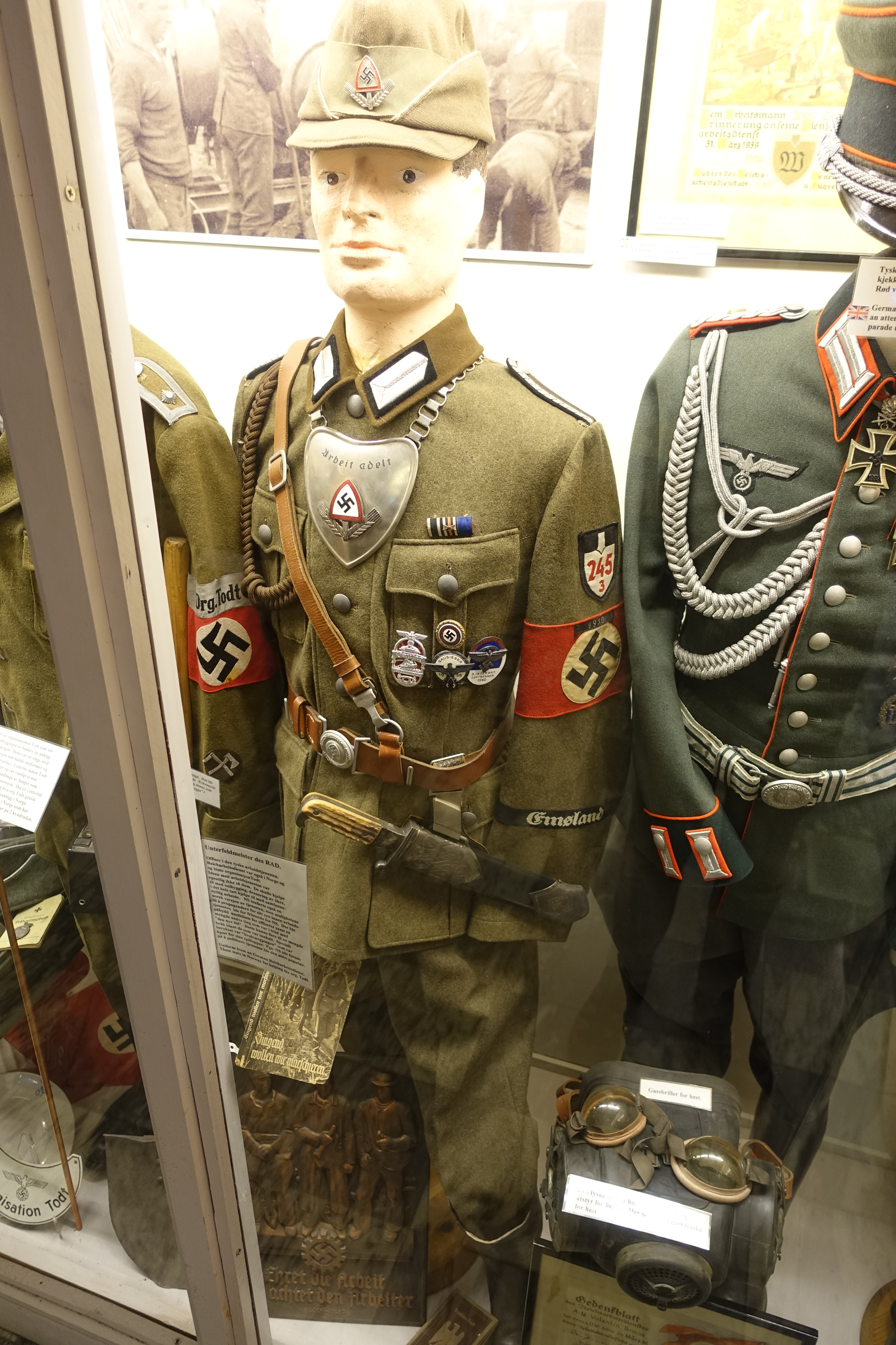 1. Reich Labour Service (RAD) leader uniform.Unterfeldmeister der Reichsarbeitsdienst. Tuchmutze service cap, gorget with Arbeit adelt, RAD insigne of the swastika on a shovel. NSDAP member pin, Gautag Ost-Hannover 1939 pin, Gausiger 1938 Hitlerjugend pin, 3. Internat. Luftrennen 1940 pin. Swastika armband. Emsland cufftitle. Sam Browne belt, RAD buckle, RAD dagger. RAD helped org.Todt in Norway. 2. Ceremonial parade full-dress uniform (grosser Gesellschaftanzug) for a Major in the Wehrmacht, the army of Nazi Germany, with visor cap, aiguillette, formel belt, buckle, Reichsadler (Imperial eagle), Iron Cross decorations, DRL sports badge, etc. Waffenrock model 1935 with Litzen and Ärmelpatten on cuffs. Riding breeches.Also posters, "Singend wollen wir marschieren" RAD song book (Liederbuch des Reichsarbeitsdienstes RAD), shovel, DAF plaque, German gas mask for horses, etc. Photo taken on May 8th, 2019 at Lofoten War Memorial Museum ("Lofoten Krigsminnemuseum") in Svolvær, Norway. The museum exhibits uniforms, smaller items, etc. from World War II and the German occupation of Norway 1940–1945.